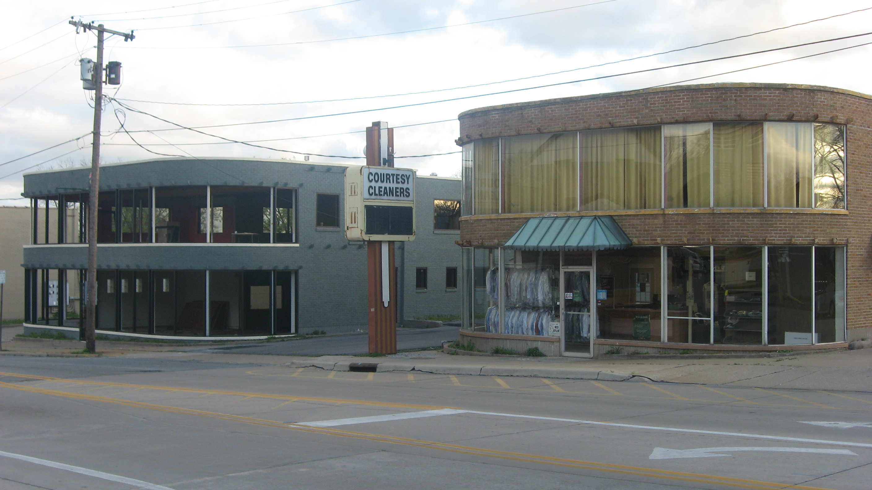 Front of the Erlbacher Buildings, located at 1105 (left) and 1107 (right) Broadway Street in Cape Girardeau, Missouri, United States. Built in 1958, they are listed on the National Register of Historic Places.